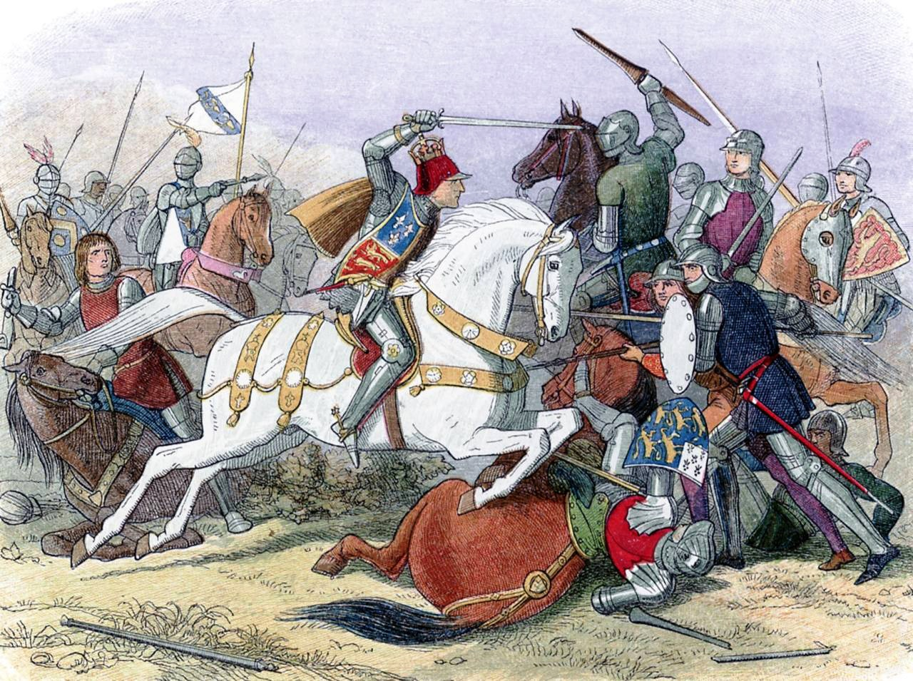 King Richard III at Bosworth Field. This engraving was published in: Doyle, James William Edmund (1864) "Richard III" in A Chronicle of England: B.C. 55 – A.D. 1485, London: Longman, Green, Longman, Roberts & Green, pp. p. 453 Retrieved on 12 November 2010.